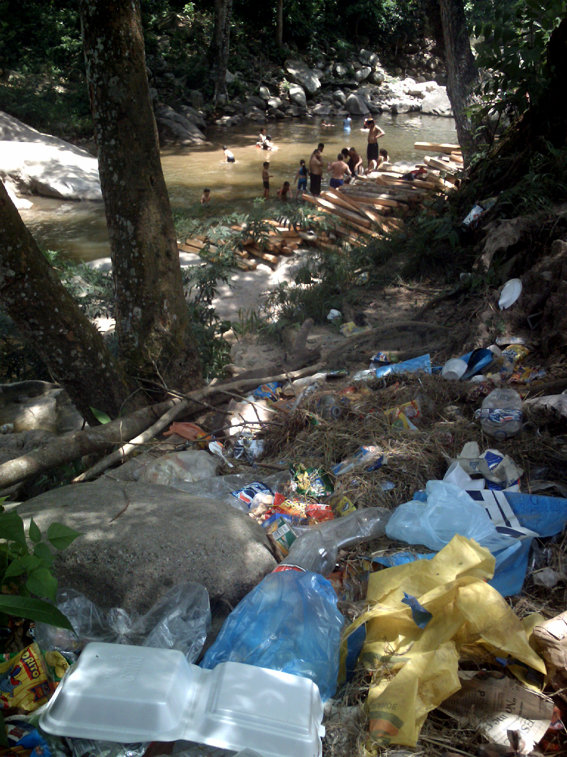 Cunana river pollution in Perija, Venezuela.